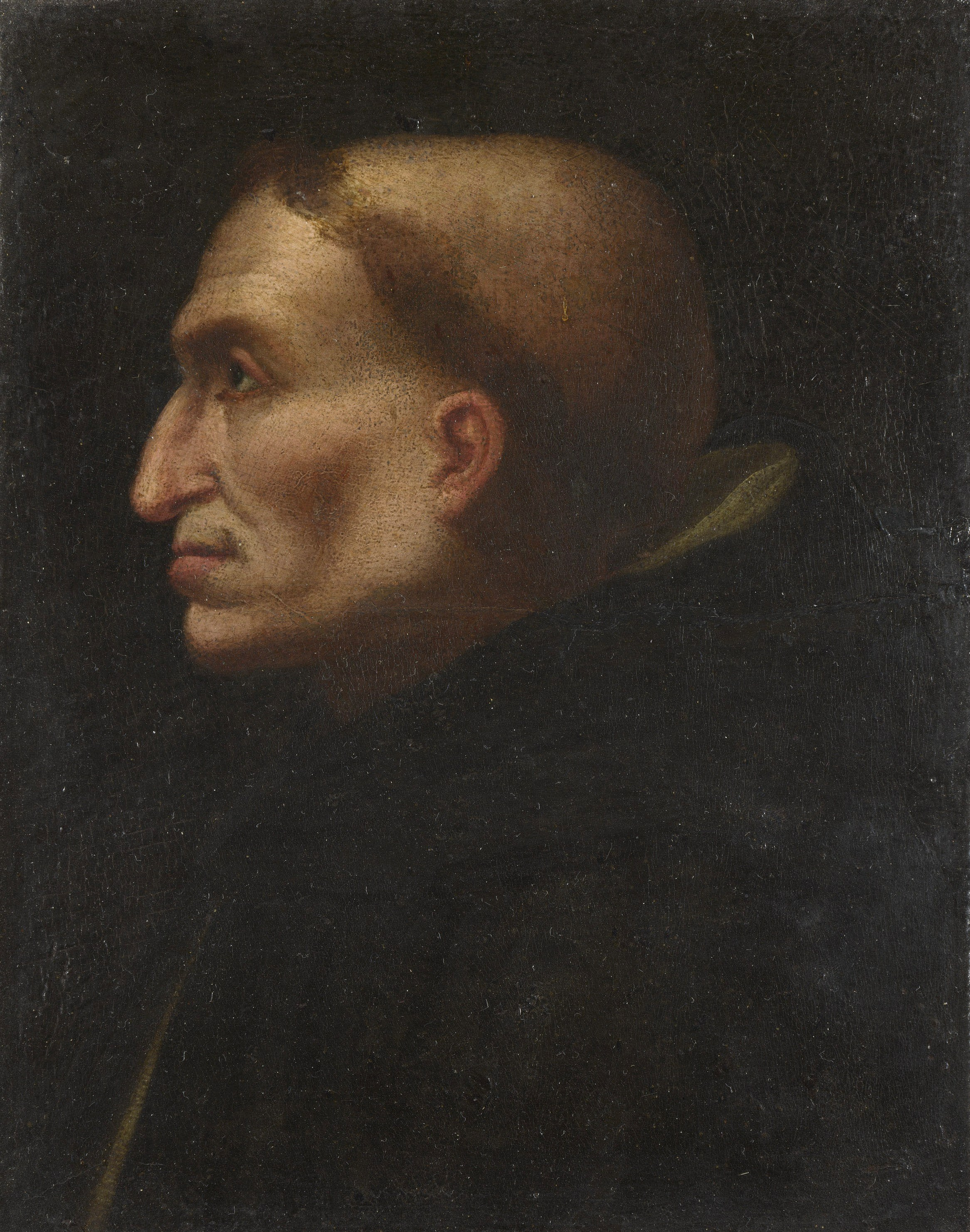 Florentine painter. Portrait of Girolamo Savonarola, oil on panel, 21.2 x 16.5 cm, ca. 1520, London, The National Gallery